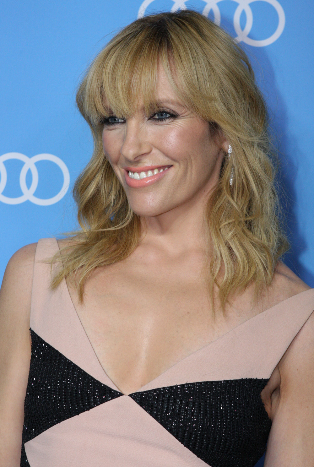 Toni Collette at The Way Way Back premiere at the State Theatre, Sydney